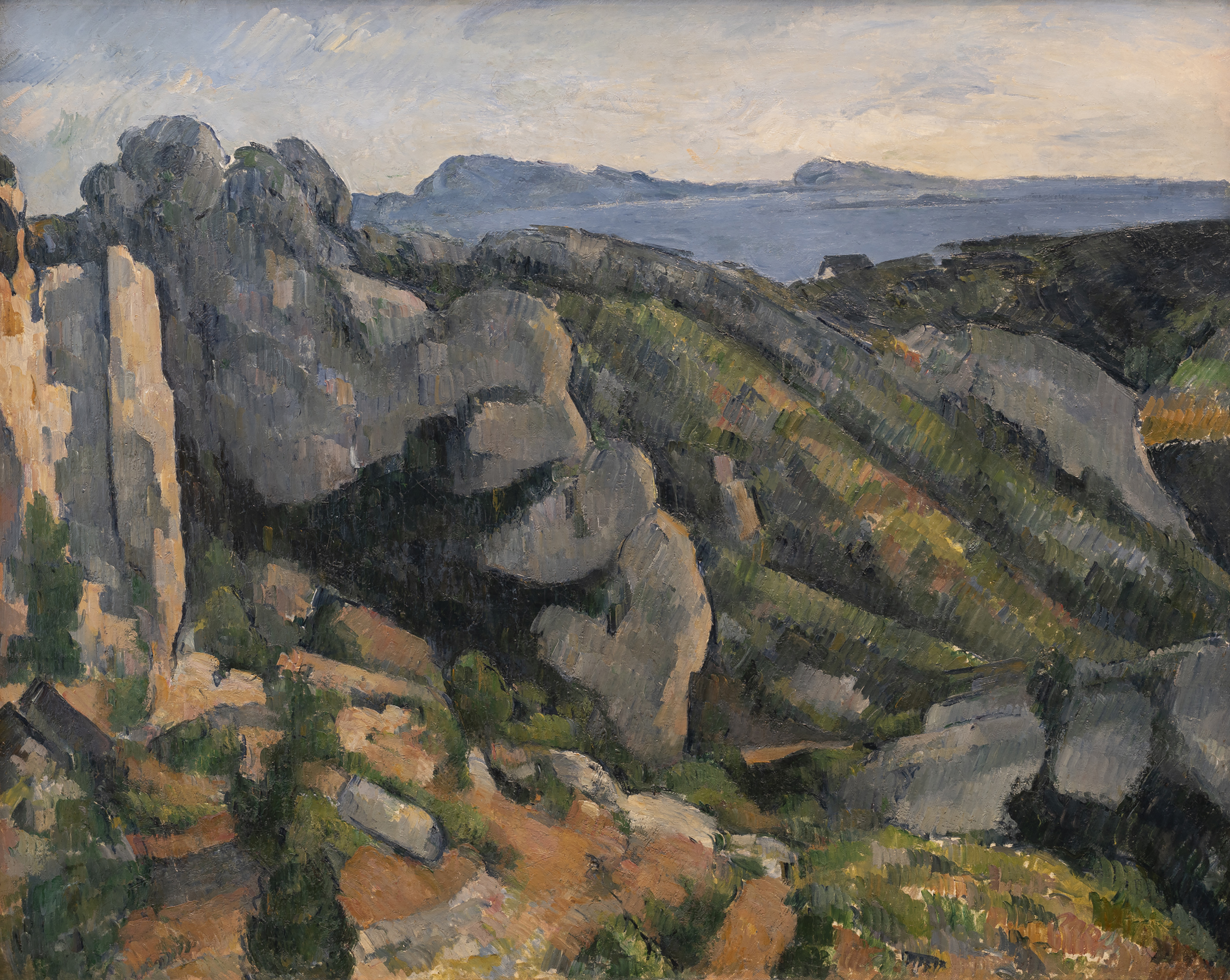 Rocks at L'Estaque